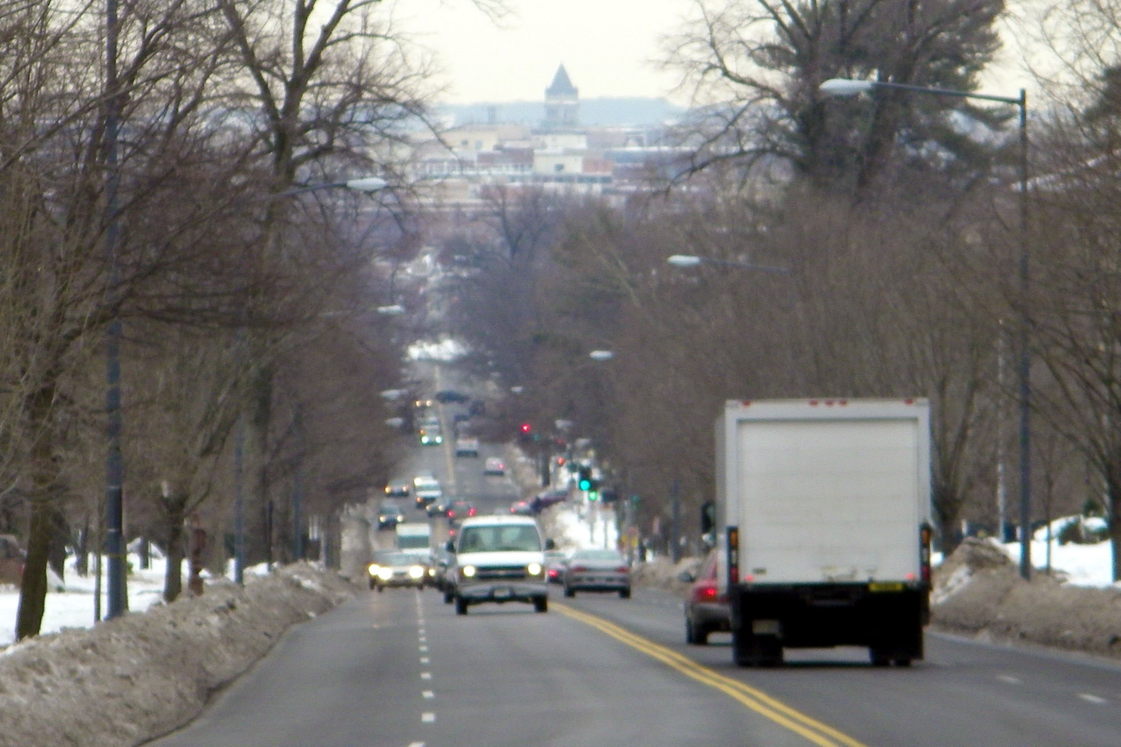 Massachusetts Avenue, Observatory Circle, Washington, D.C.